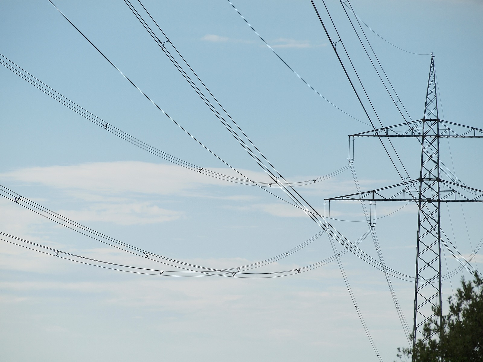 3-conductors-bundle with spacers